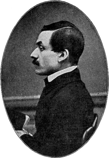 Ibrahim Shinassi Effendi (1840–1888). Most likely, based on naming and other images, of İbrahim Şinasi, the famed Ottoman writer, playwright, and newspaper editor (see [1]). The birth and death dates do not match, however (Şinasi was born 1826, Constantinople (now Istanbul) and died Sept. 13, 1871, Constantinople)